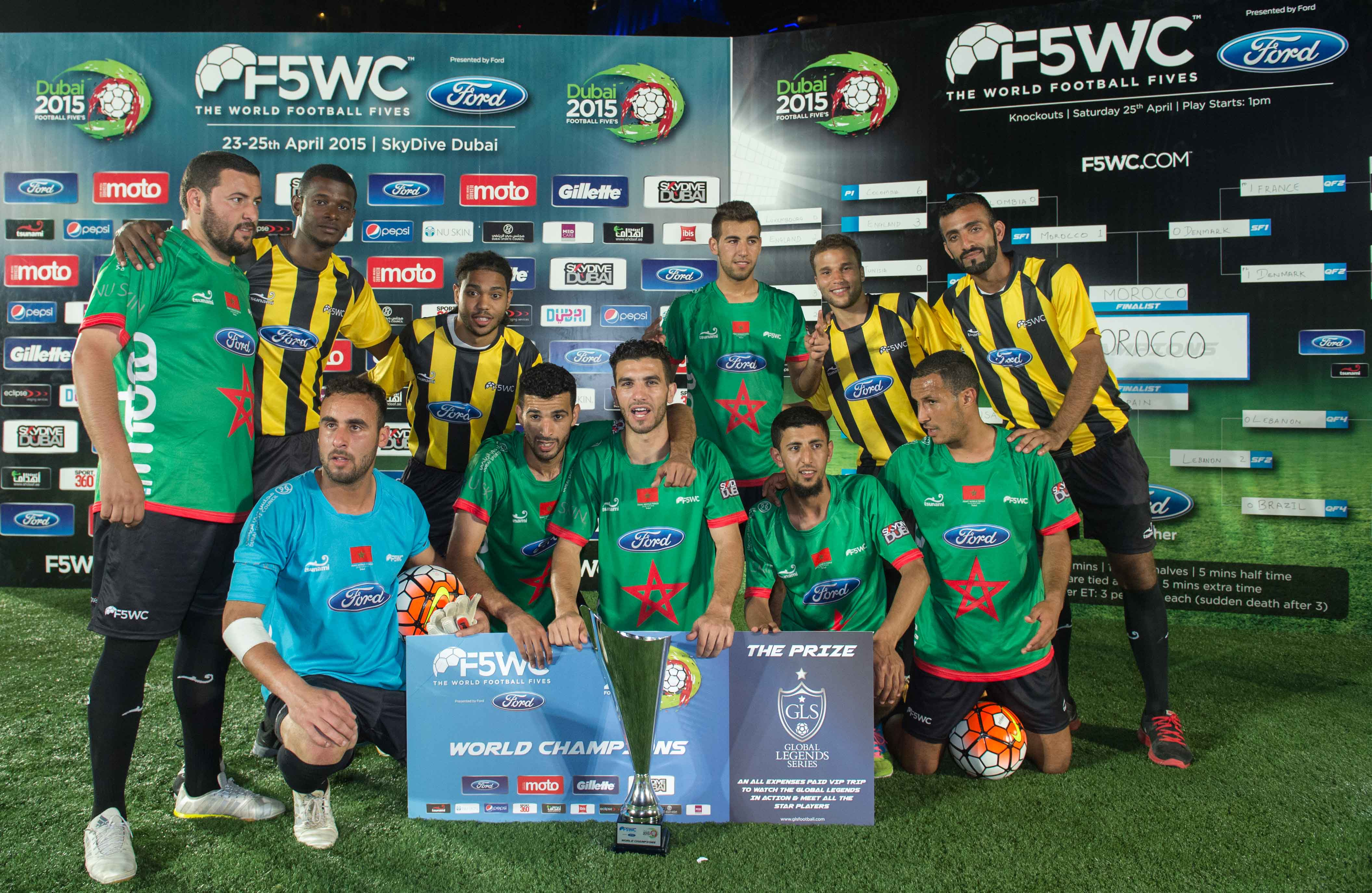 2015 F5WC Champions - Morocco